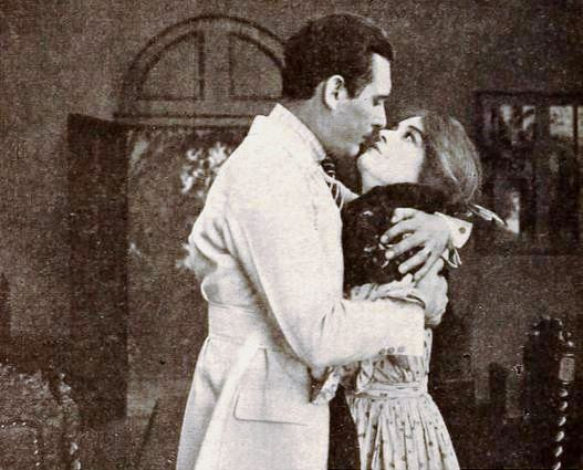 Still from the American drama film A Branded Soul (1917) with Lew Cody and Gladys Brockwell, on page 32 of the December 22, 1917 Exhibitors Herald.